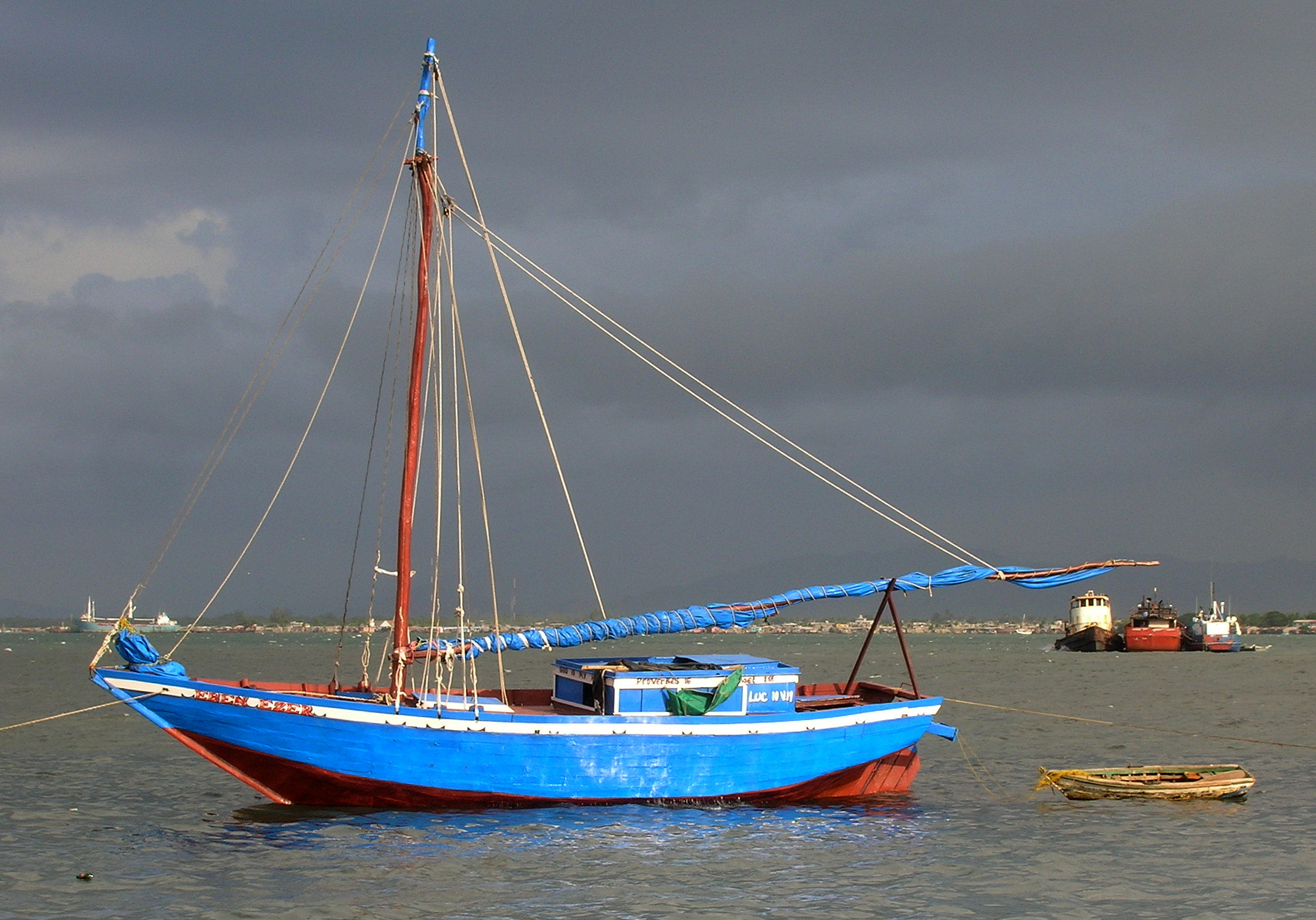 Fishing boat at anchor in Cap-Haïtien, Haiti